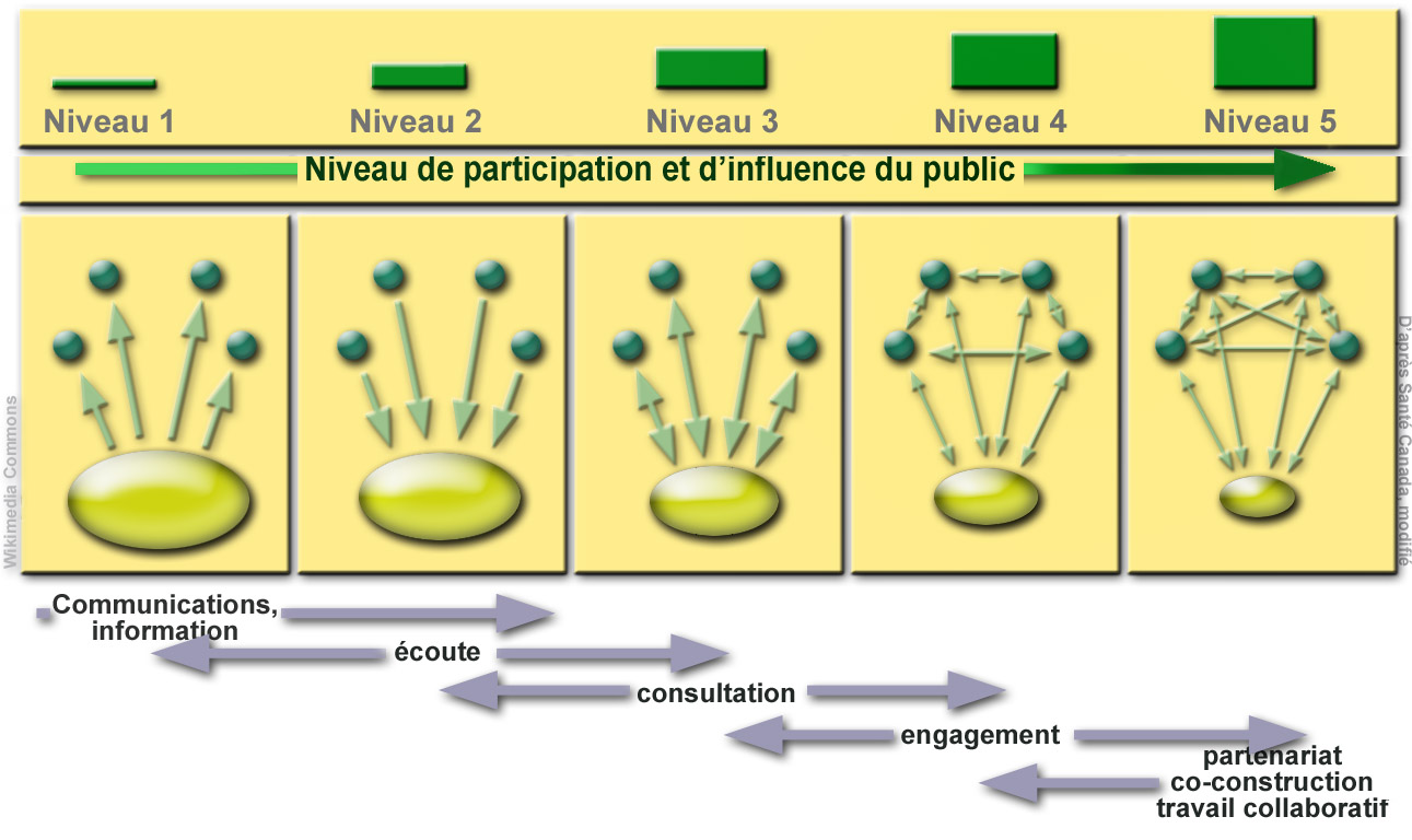 this Graph shows different levels of public participation (individuals or groups of the public are represented by small circles) in a project carried by an actor (here represented by the oval),. This graph is based on a diagram produced by Health Canada, and taken by the French guide (2011) from IRSN Management of sites potentially contaminated with radioactive substances], 2011, téléchargealbe PDF, 122 pages. Arrows represent interactions. The time dimension is not represented here, but the approach may be a relationship of limited duration (time of preparation and realization of a public inquiry for example) or long-lasting (permanent forum, etc..)